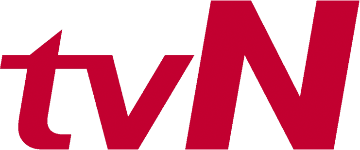 TVN Logo